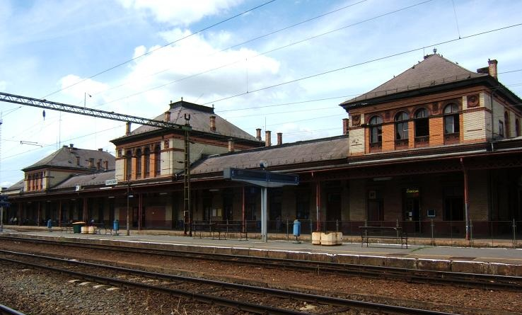 Kaposvár railway station This is a photo of a monument in Hungary. Identifier: -12760